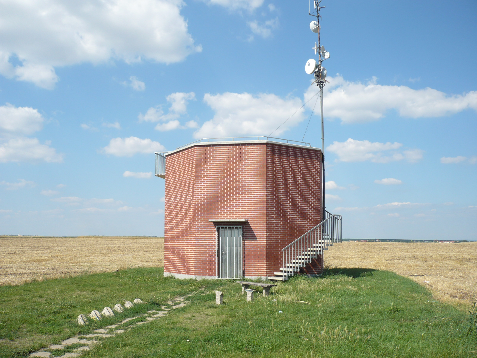 Observation Tower Bratcice, South Moravia